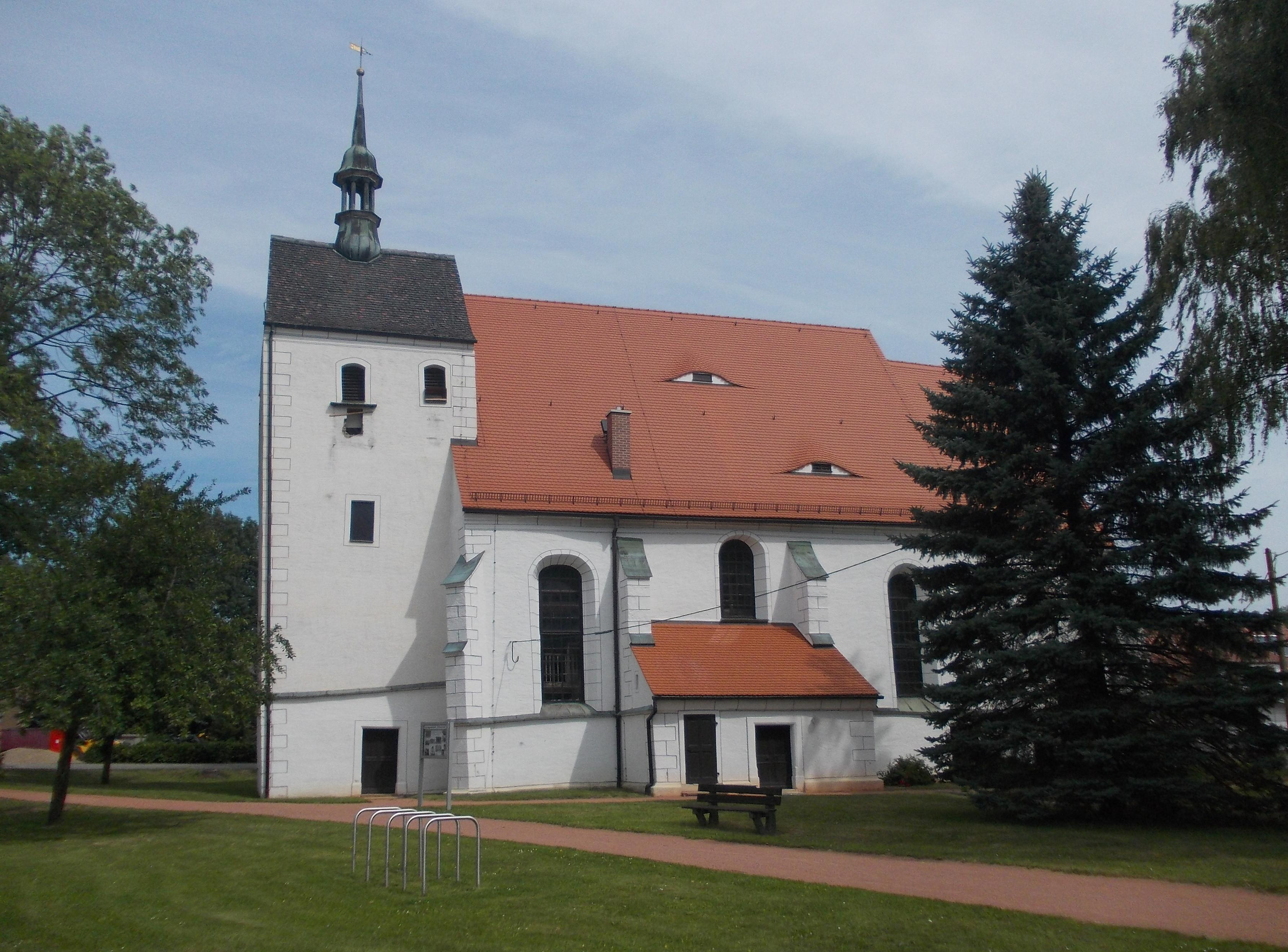 St. Godehard's Church in Jahna (Ostrau, Mittelsachsen district, Saxony)